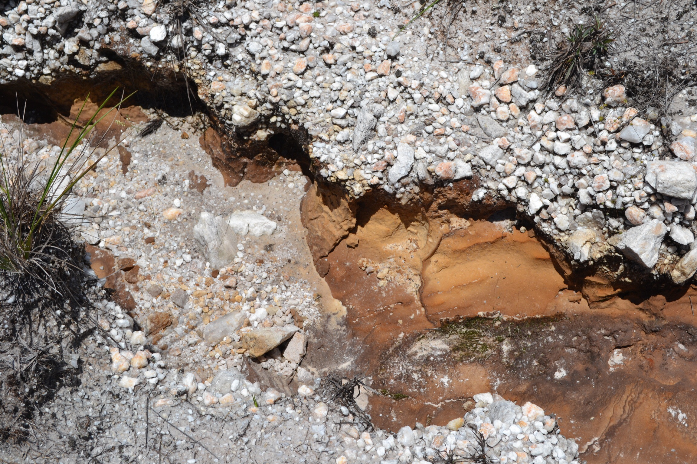 Photo taken of a soil profile at Serra do Cipó in Minas Gerais